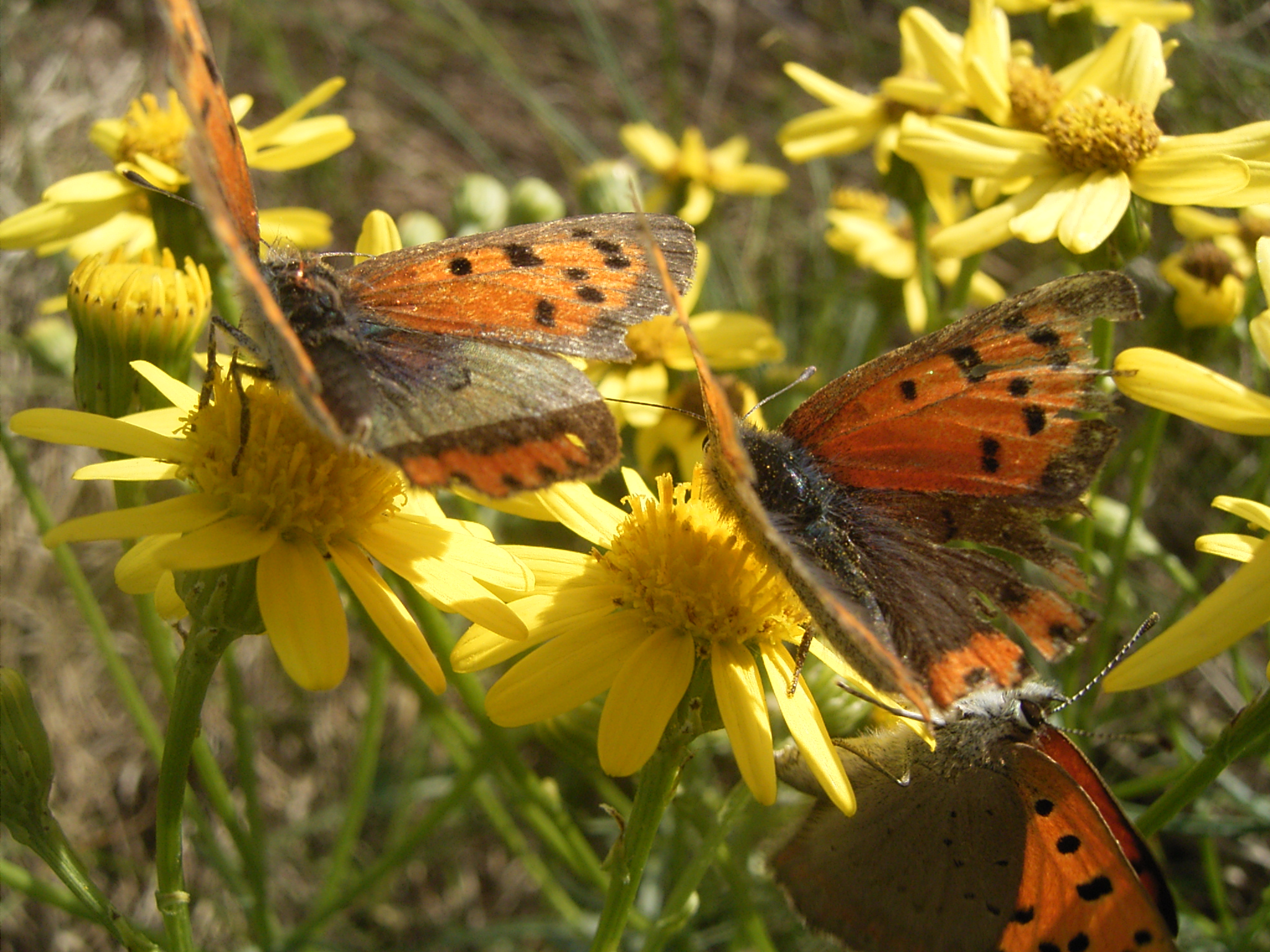 This photo shows Lycaena phlaeas